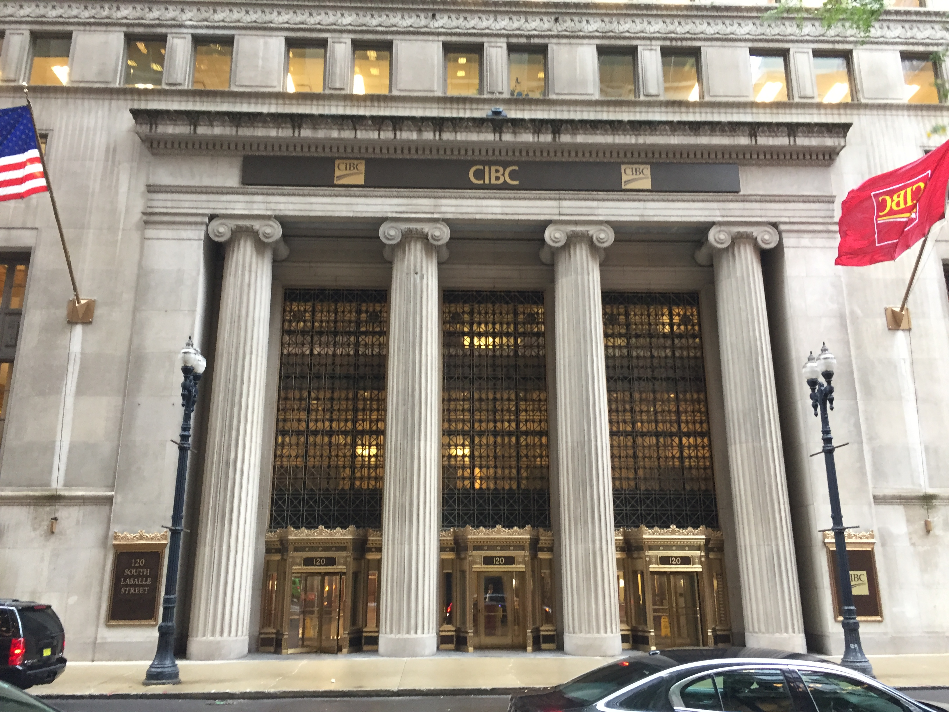 The CIBC building at 120 S LaSalle St in Chicago, Illinois on October 11, 2017.